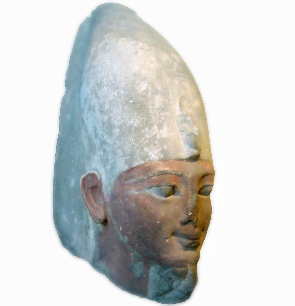 Sandstone statue head, thought to represent an early 18th dynasty pharaoh, likely either Ahmose I or his sone Amunhotep I. Dynasty 18, circa 1539-1493 B.C.